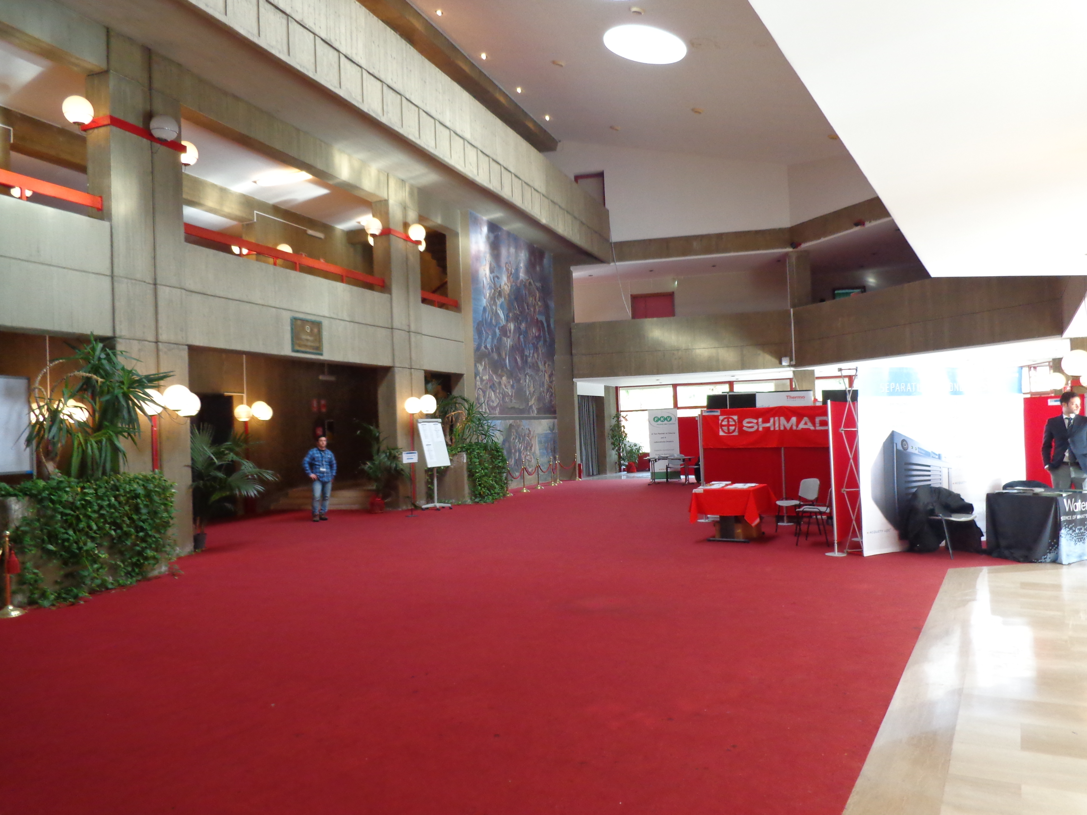 University of Messina